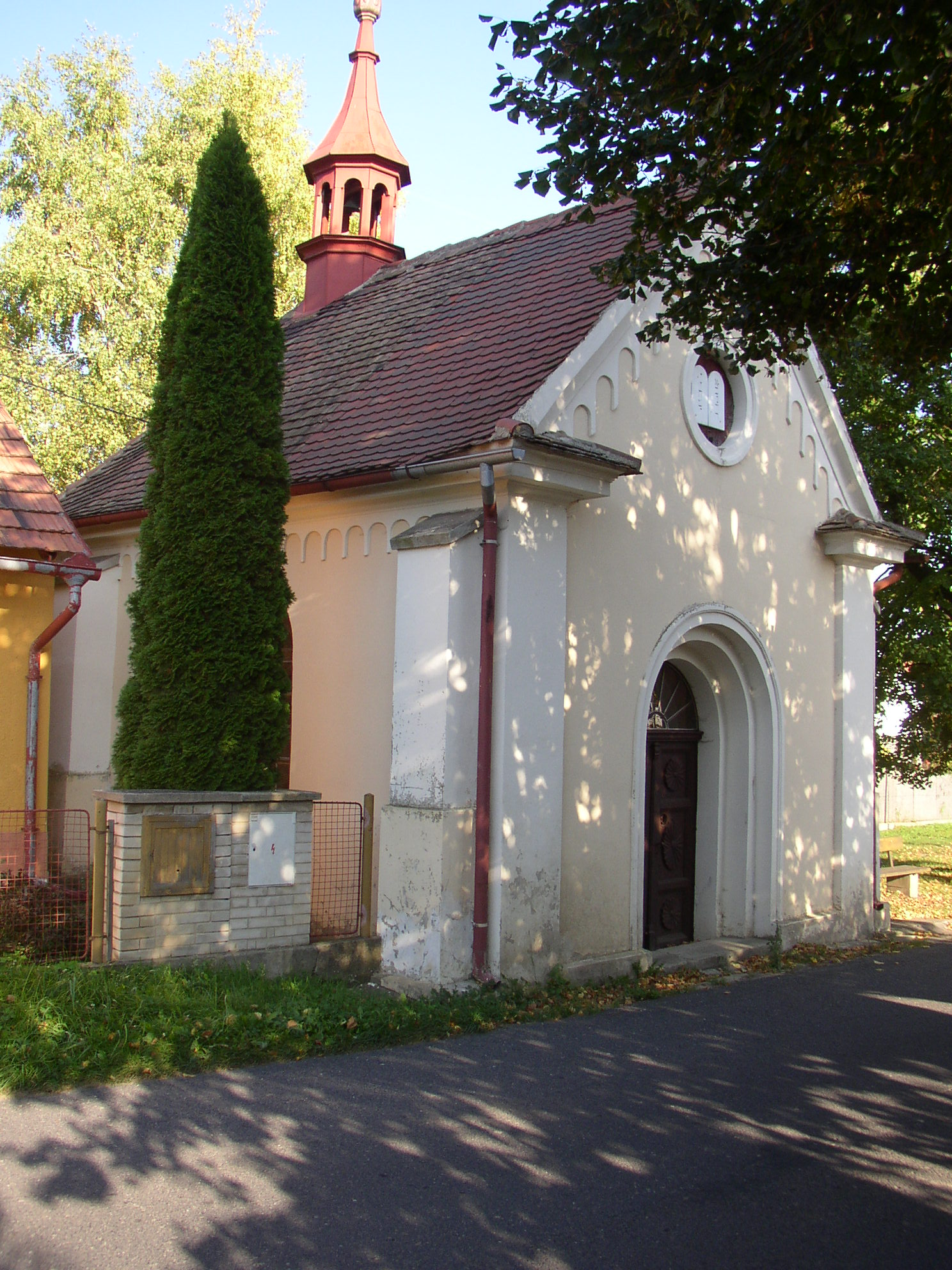 Teplá, Litoměřice District, Czech Republic. Chapel of the Visitation of the Virgin Mary.